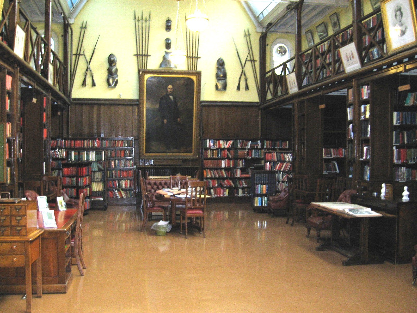 Interior of the Prince Consort's Library at Aldershot.